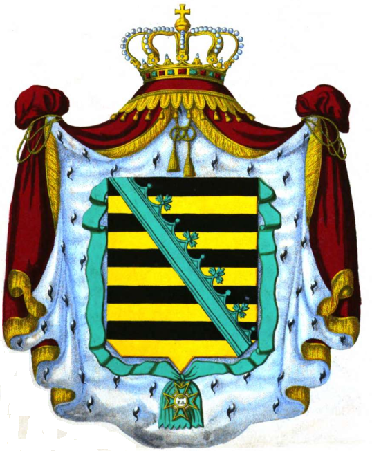 Coat of arms of the Kingdom of Saxony